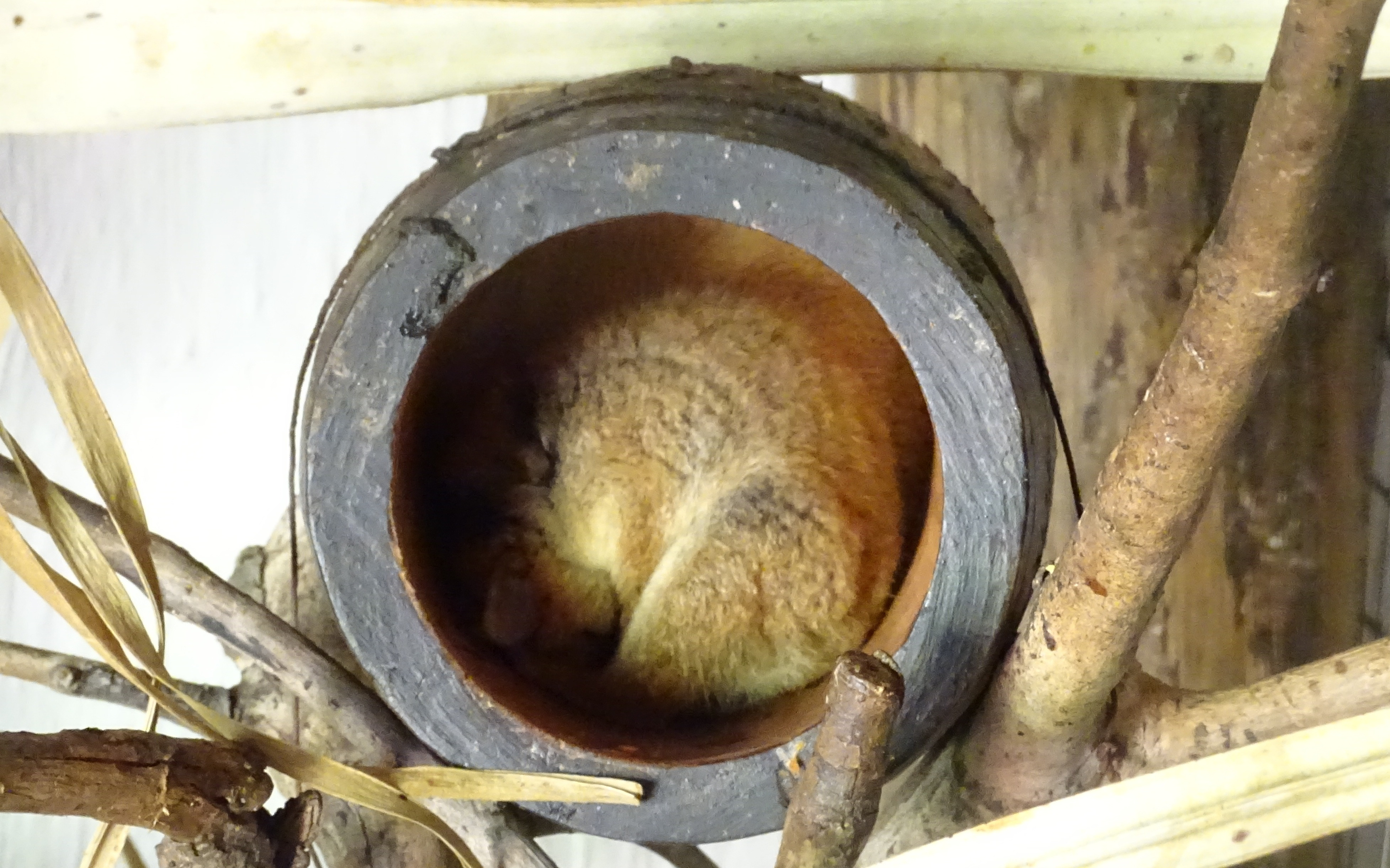 Rufus (or Red or Brown) Mouse Lemur at Lemurs' Park